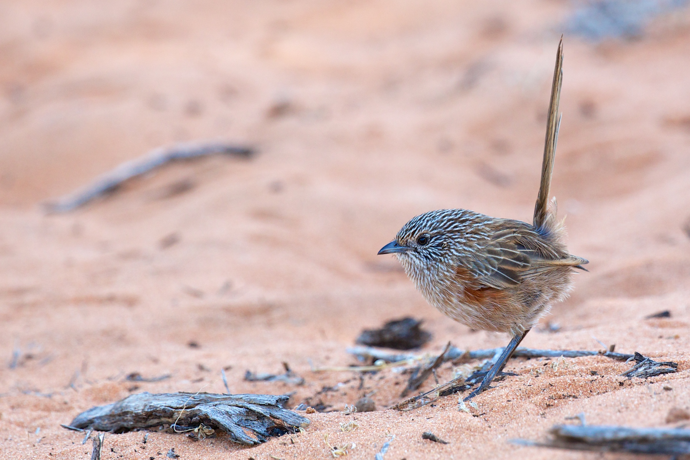 Amytornis textilis: Western subspecies-textilis, female, Listed as Vulnerable Big Lagoon Francois Peron National Park Peron Peninsula Western Australia